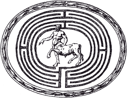 The Minotaur (represented here as a man's head and torso joined to a bull's body, in reverse of the Classical tradition showing a bull's head on a man's body) at the centre of the Labyrinth, depicted on a gem.According to Hermann Kern (Through the Labyrinth, Prestel, 2000, item 371, p. 202), the original gem is in the Medici Collection in the Palazzo Strozzi, Florence. Kern assigns the gem to the 16th century, stating that Maffei "erroneously deemed the piece to be from Classical antiquity". (The Labyrinth is depicted in a style unknown in Classical times but common in the Renaissance.) The Minotaur is here represented (as not uncommonly in medieval and later times) as the reverse of the usual classical representation (a bull's head on a man's body). This is occasionally mistaken for a centaur; but the association with the Labyrinth makes it clear that it represents the Minotaur, and the artist has been careful to carve the hooves in bovine, not equine, form. The tuft on the belly is also typical of a bull, not a horse.